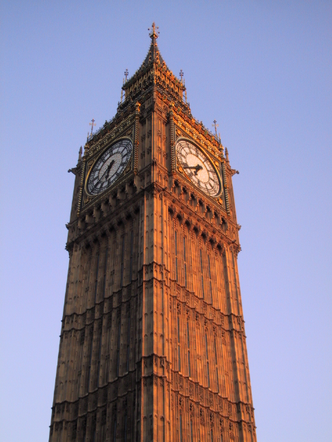 Big Ben clock tower.